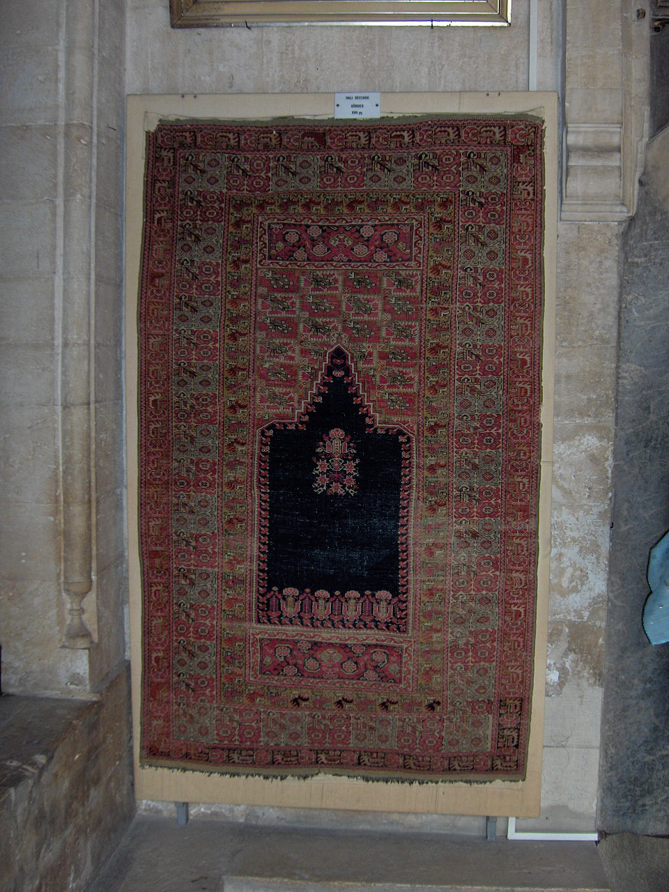 Ancient Kirşehir prayer rug in the Tilavet room; Mevlâna mausuleum; Konya, Turkey